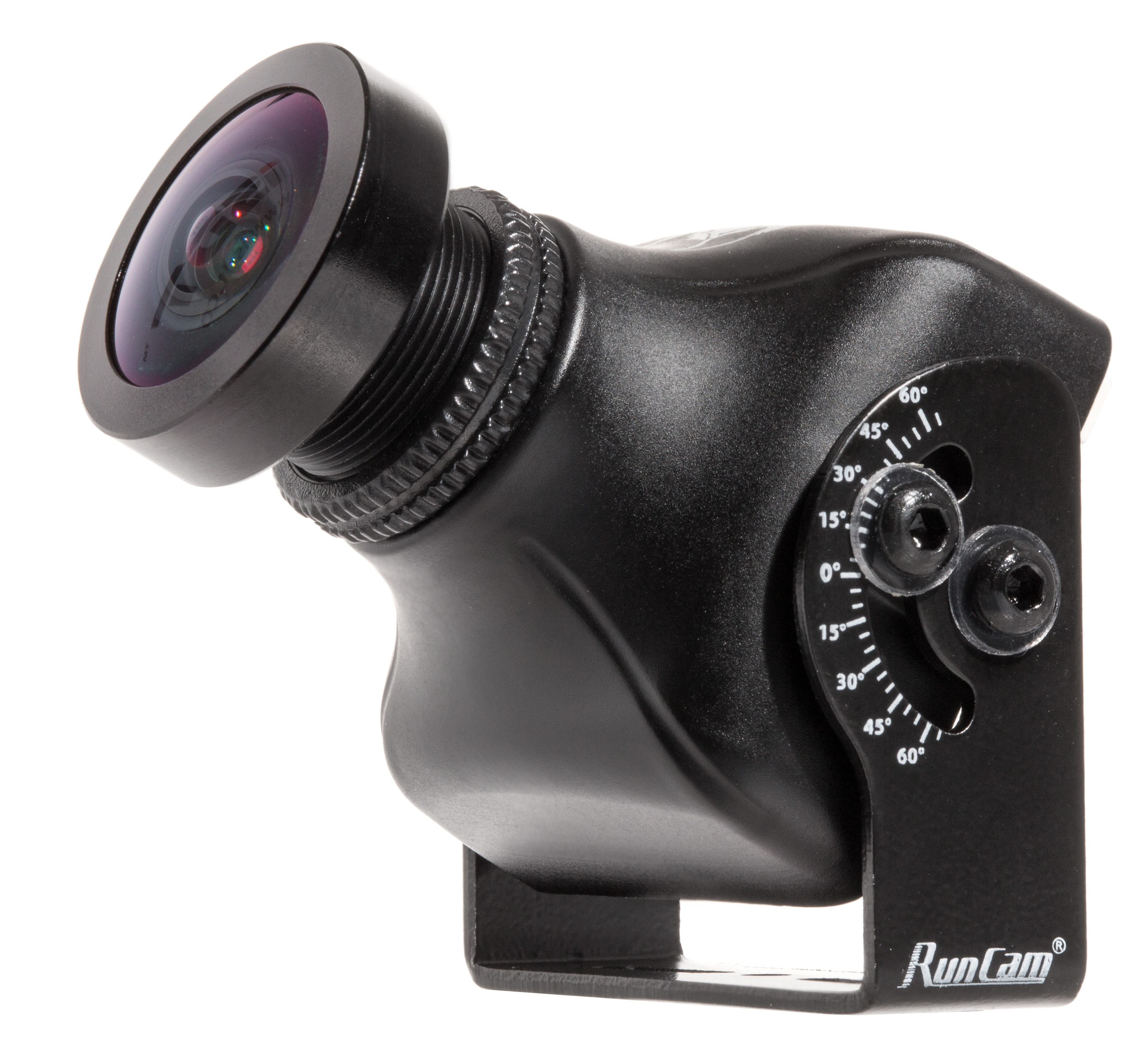 Runcam Eagle black FPV camera with bracket